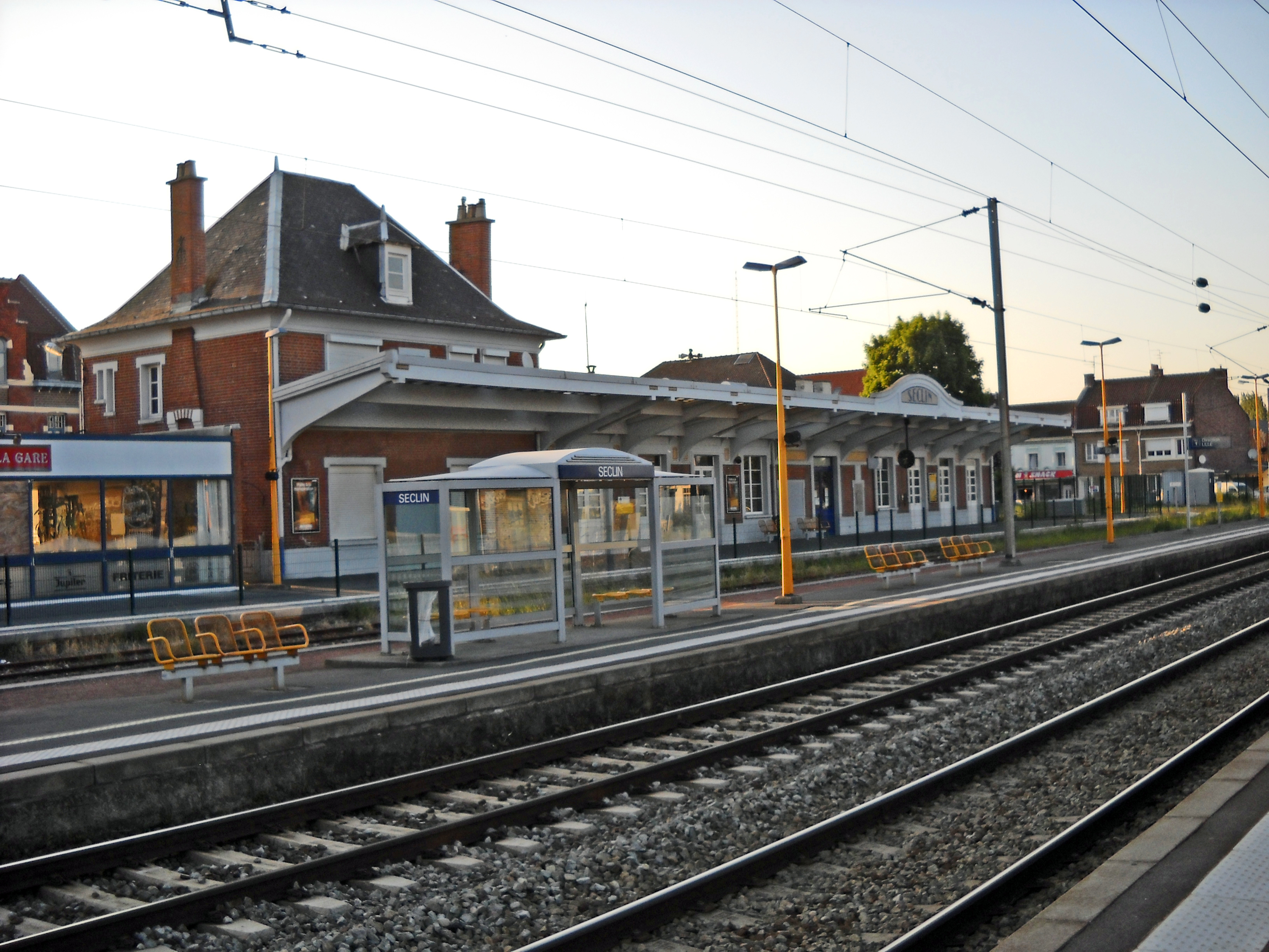 The train station of Seclin, Nord, France.